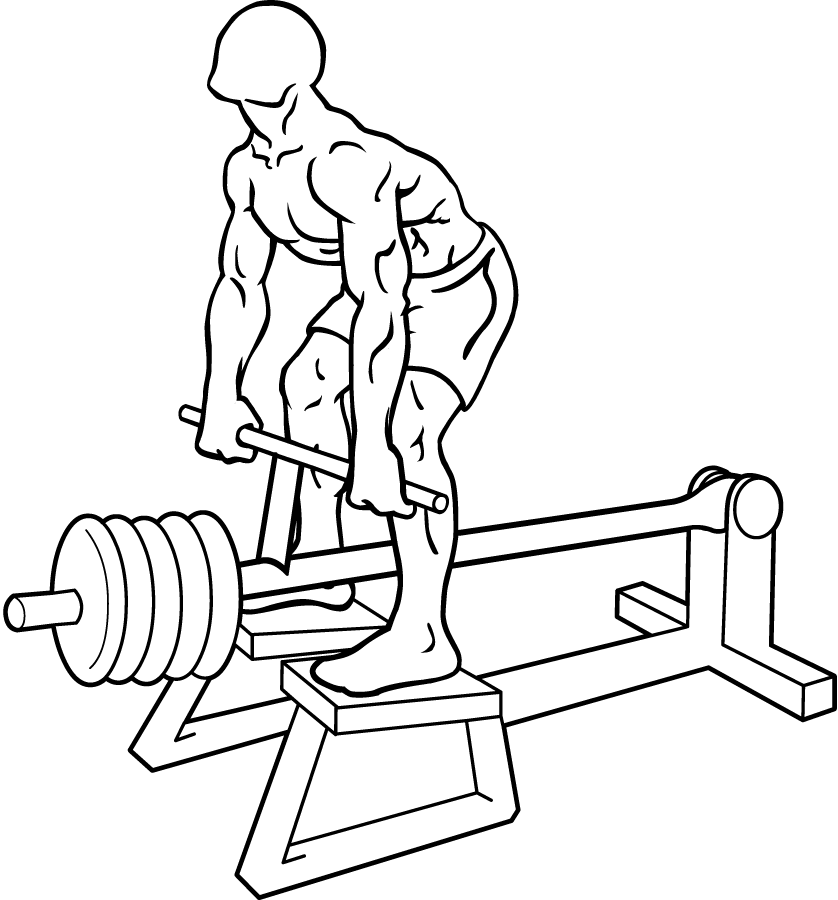 an exercise of triceps